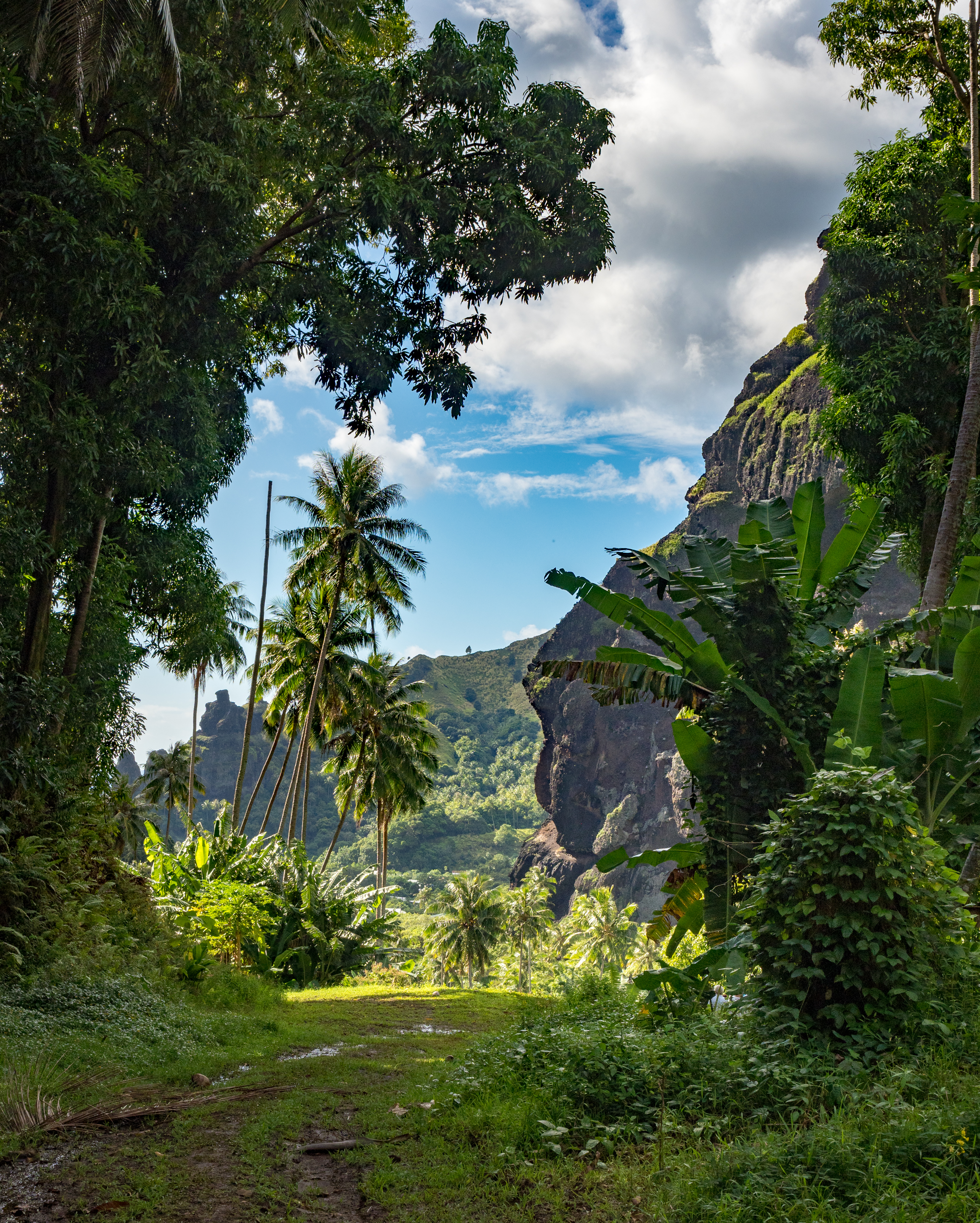 Fatu Hiva Marquesas